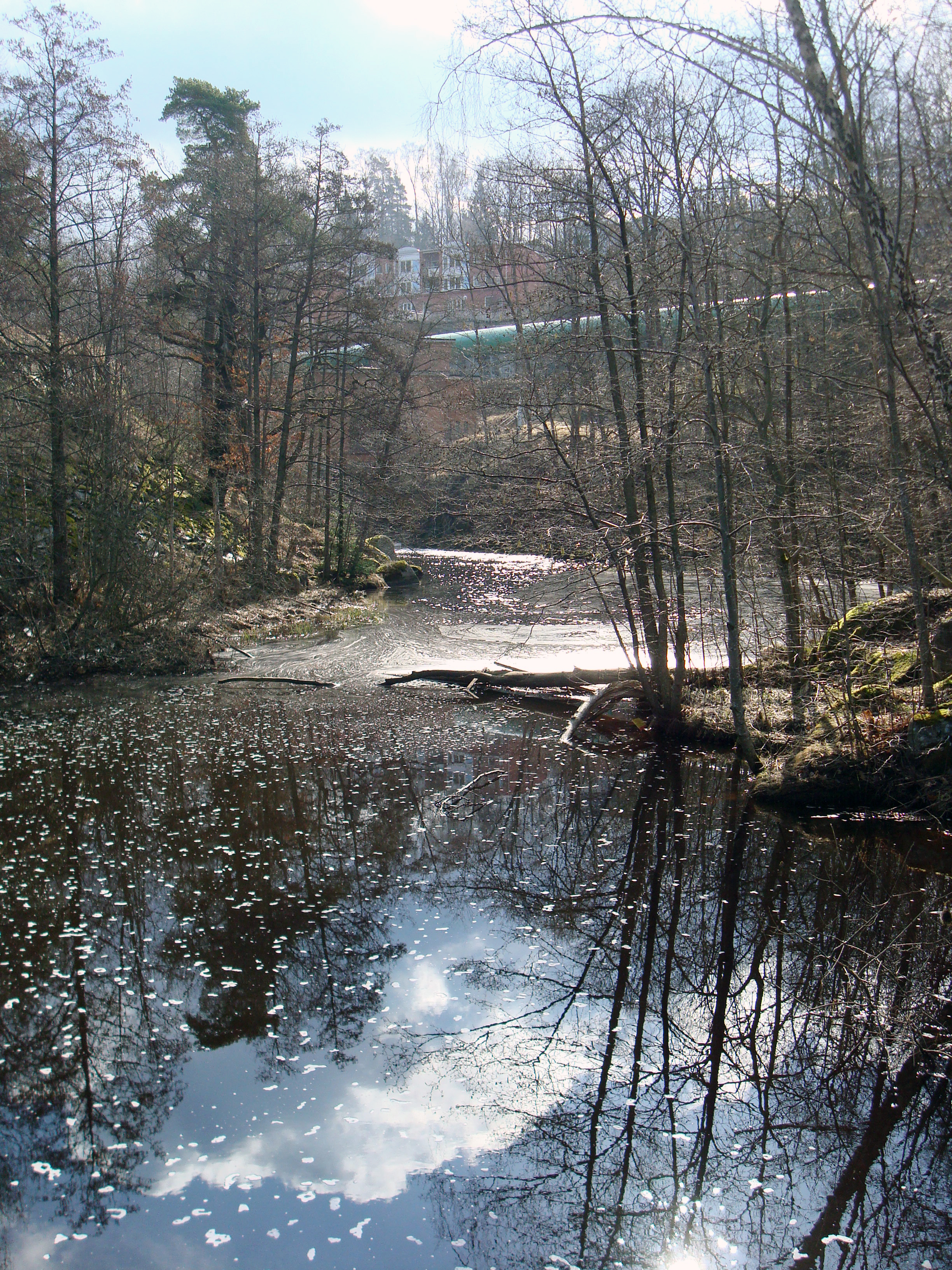 Huskvarnaån in Huskvarna, Sweden